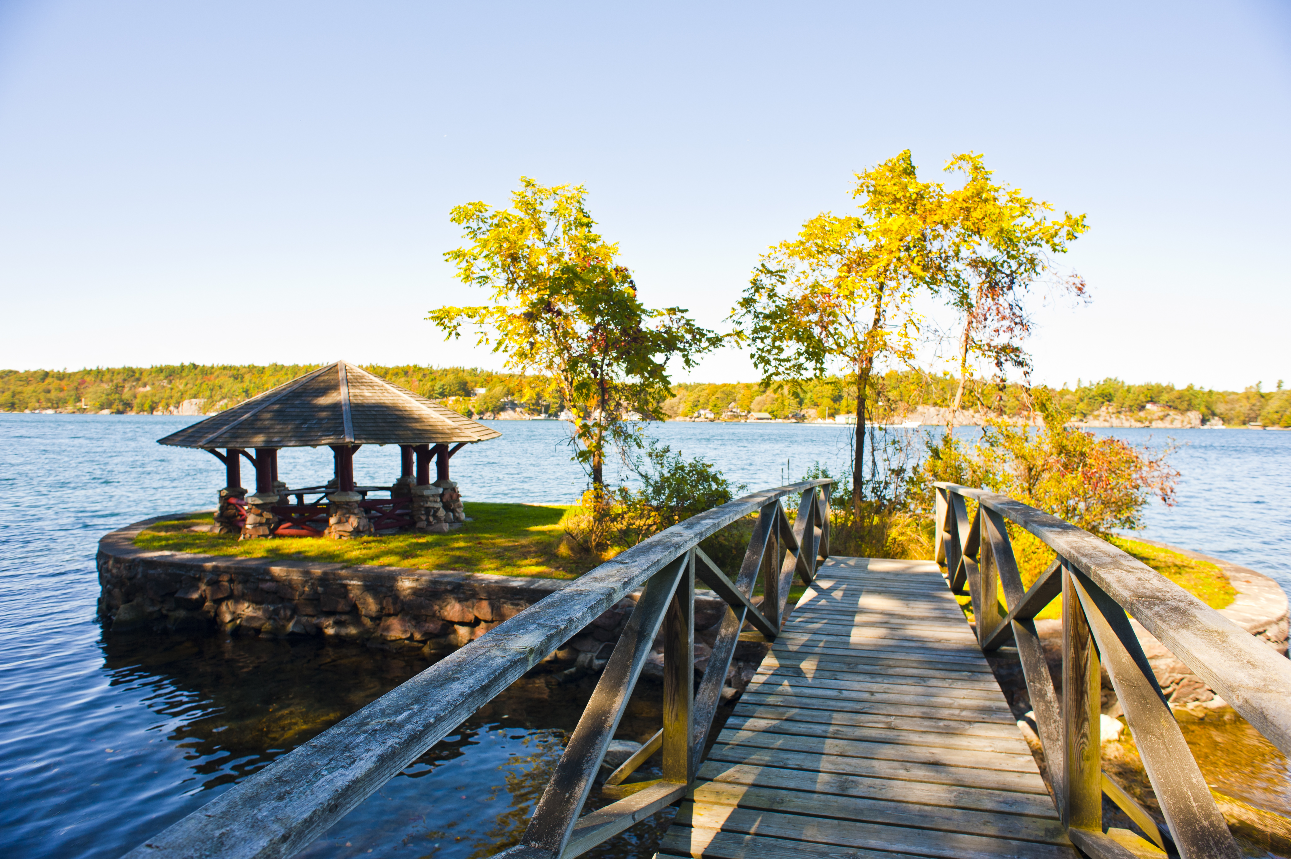 "Gazebo" - Over the Bridge St. Lawrence Islands National Park of Canada Front of Yonge, Eastern Ontario